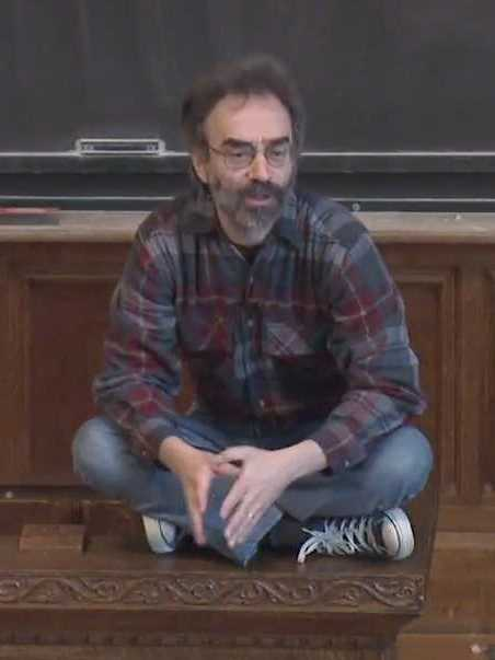 Shelly Kagan giving a lecture at Yale University.